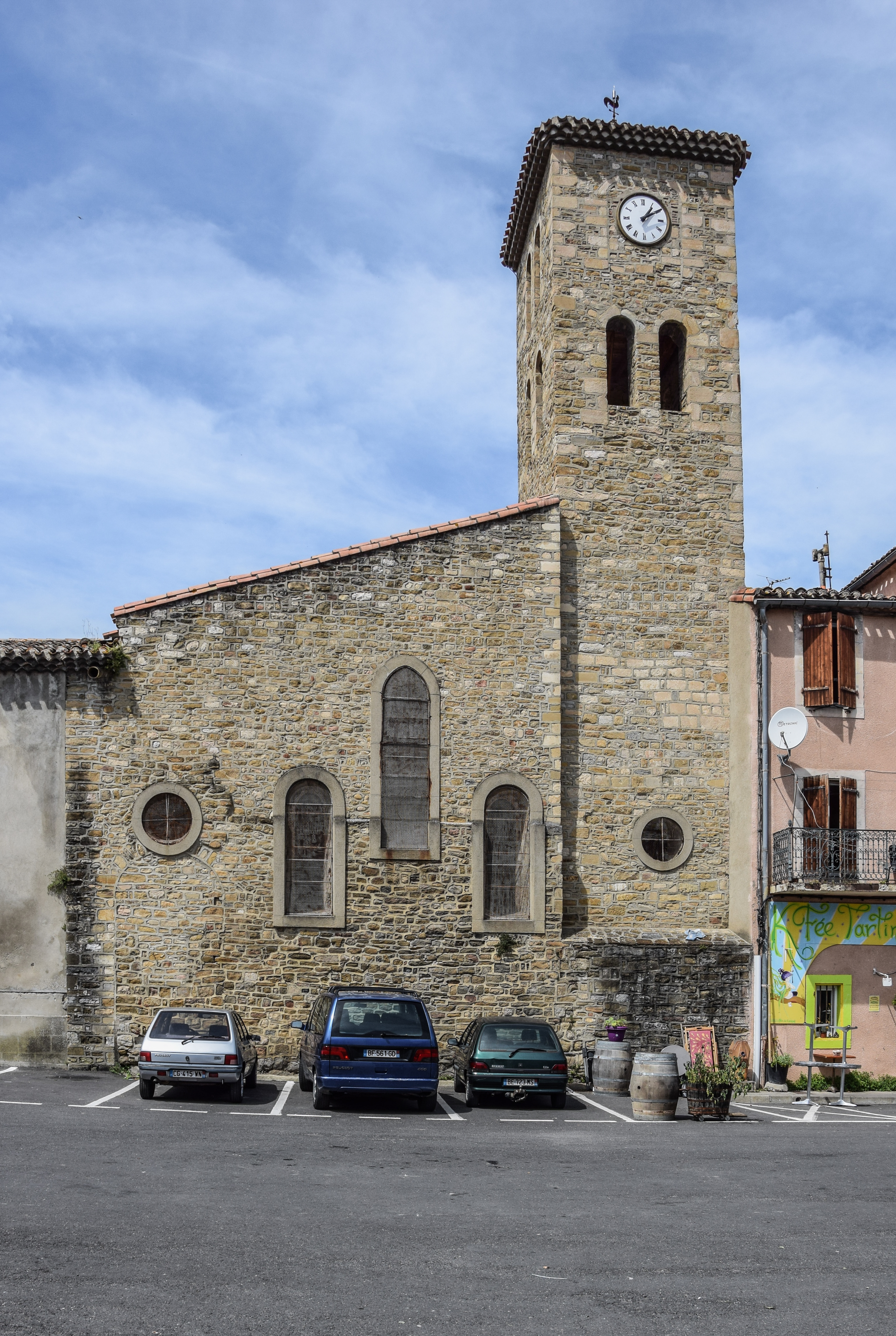 Saint Michael church in Espéraza, Aude, France